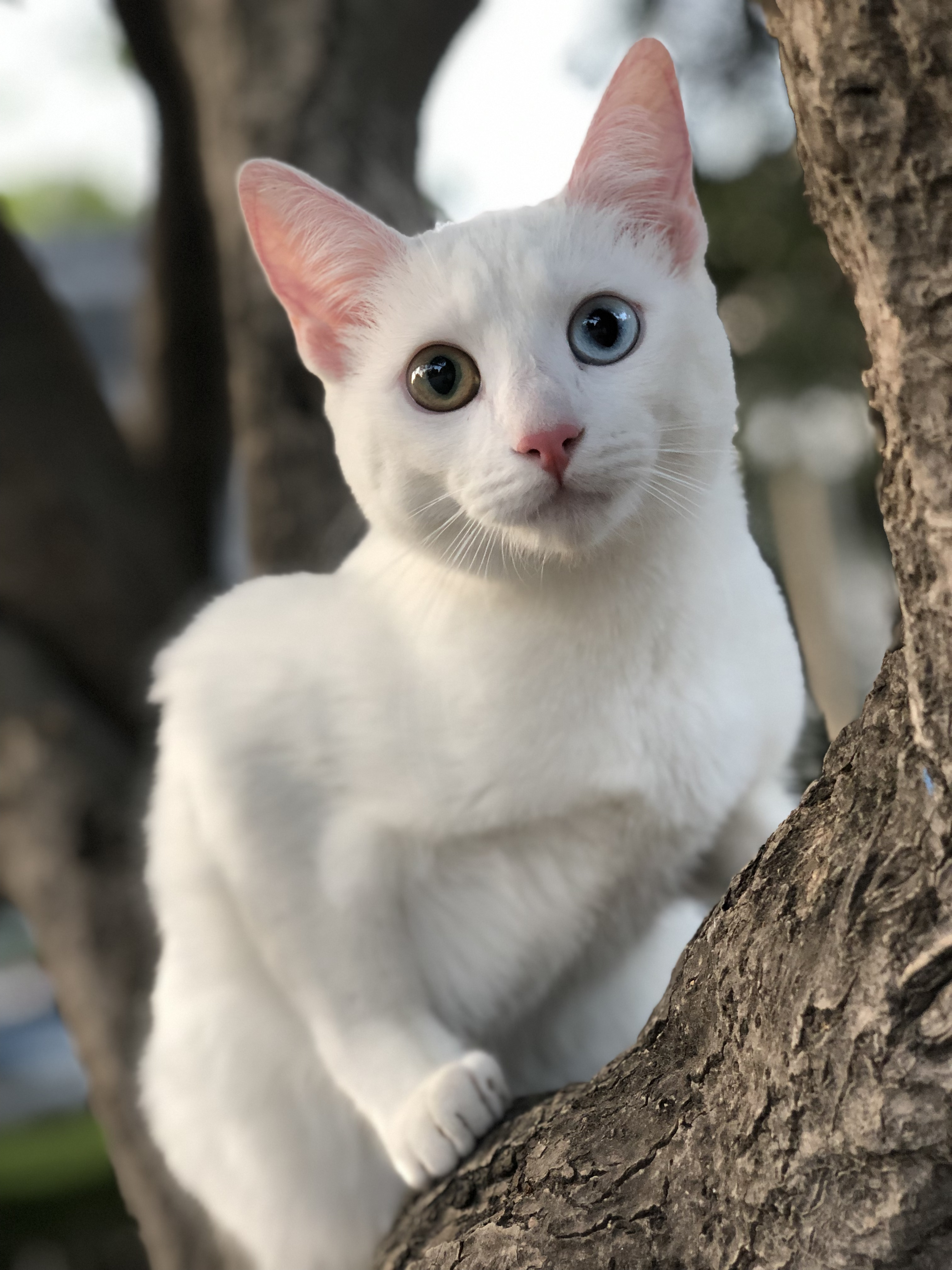 Odd-eyed Khao Manee cat on a tree